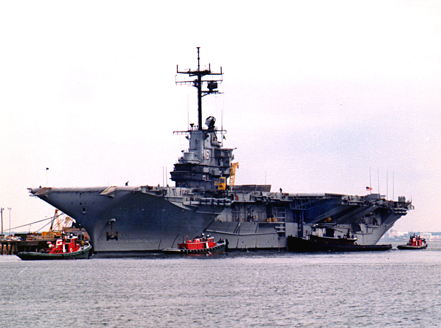 The U.S. Navy training carrier USS Lexington (AVT-16) putting out to sea in Pensacola, Florida, (USA), circa on 20 January 1987. The ship was based in Pensacola and served as a training ship for naval aviators until 1991.